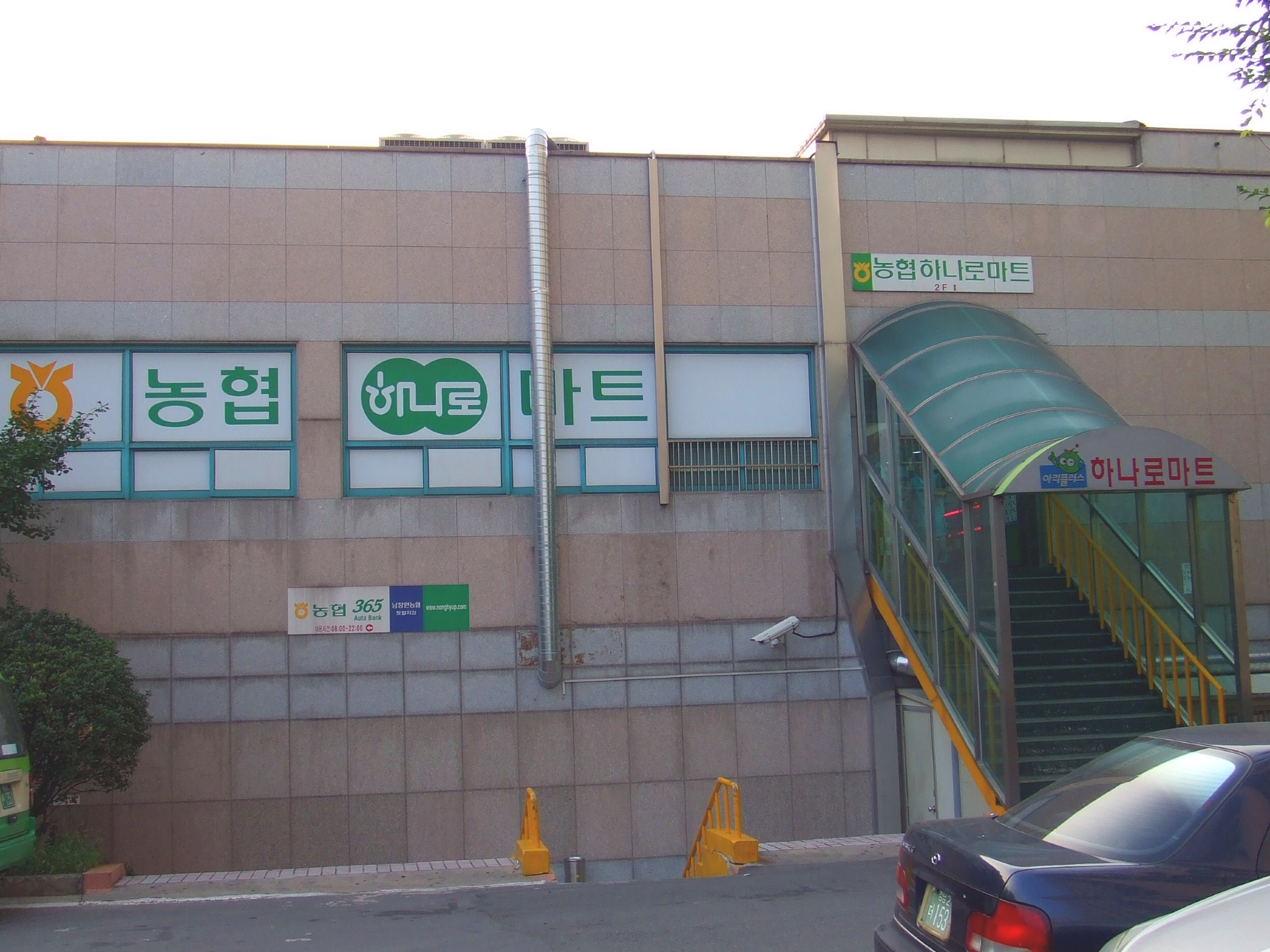 Nonghyup (National Agricultural Cooperative Federation) shop, South Korea